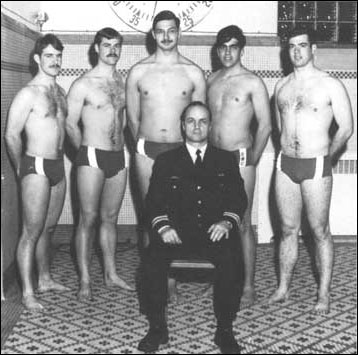 Photo of Polhems Simklubb, 1930.